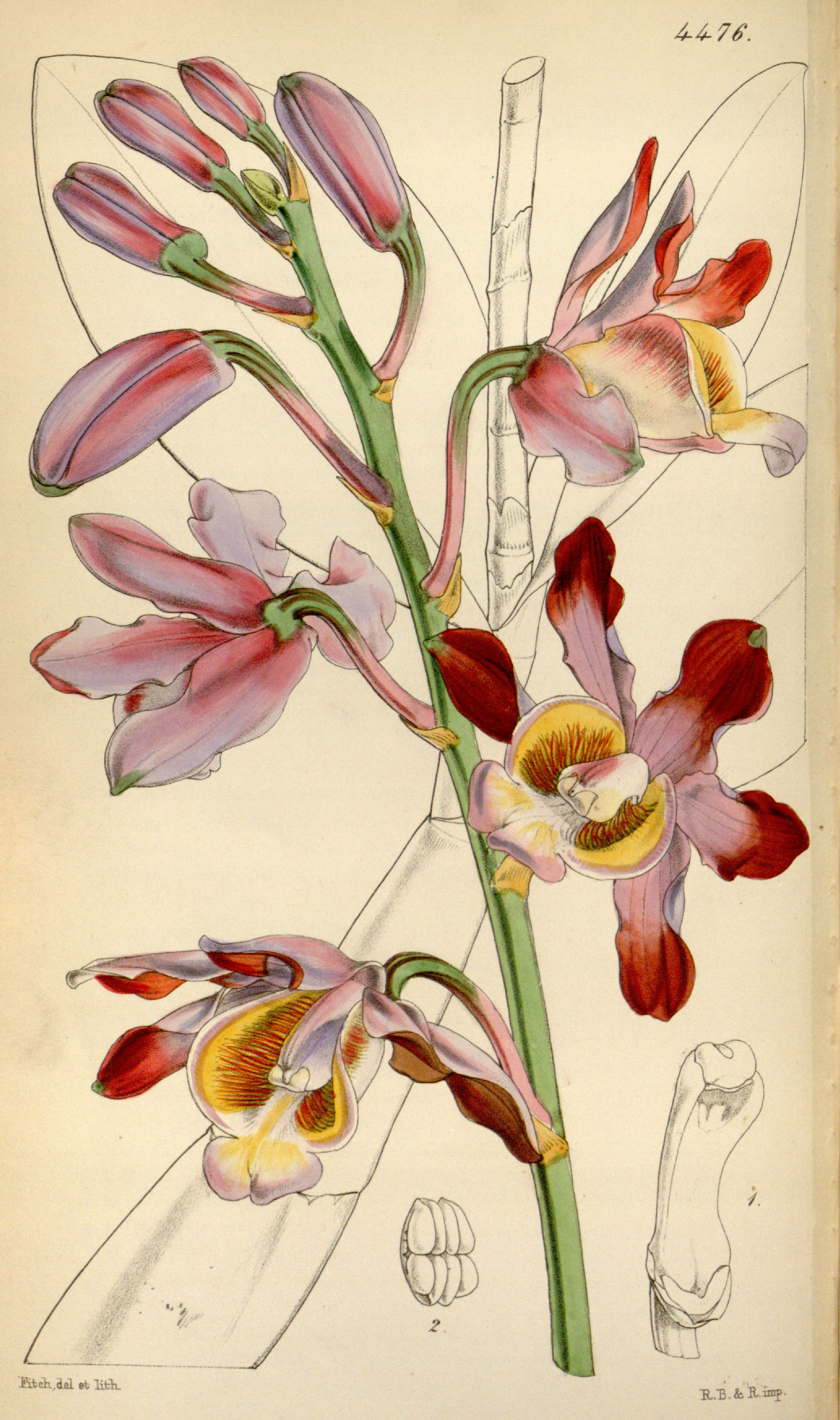 Illustration of Myrmecophila grandiflora (as syn. Schomburgkia tibicinis var grandiflora)